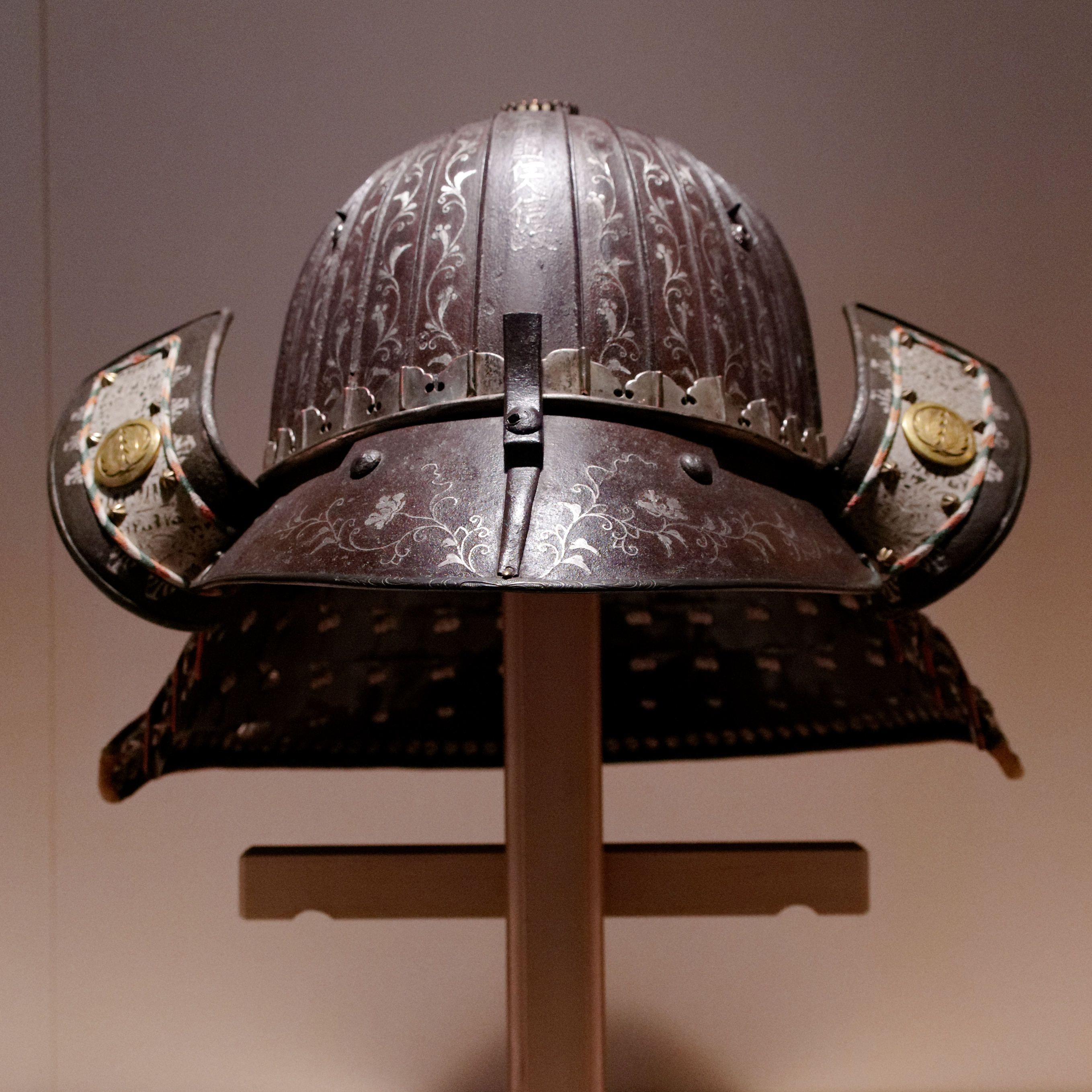 Suji-type kabuto (helmet) inscribed by Yoshihisa and Nobumasa, Muromachi period.